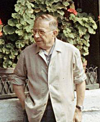 Jean-Paul Sartre in Venice; August of 1967.